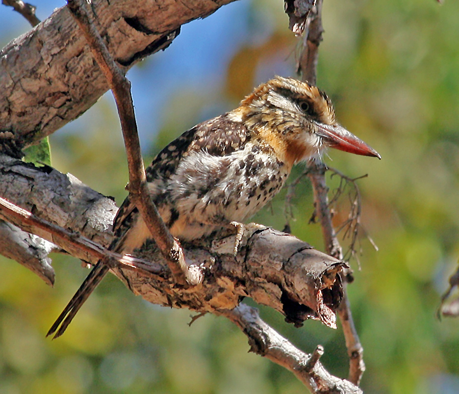 Brazil, Goiás, region of Formosa.